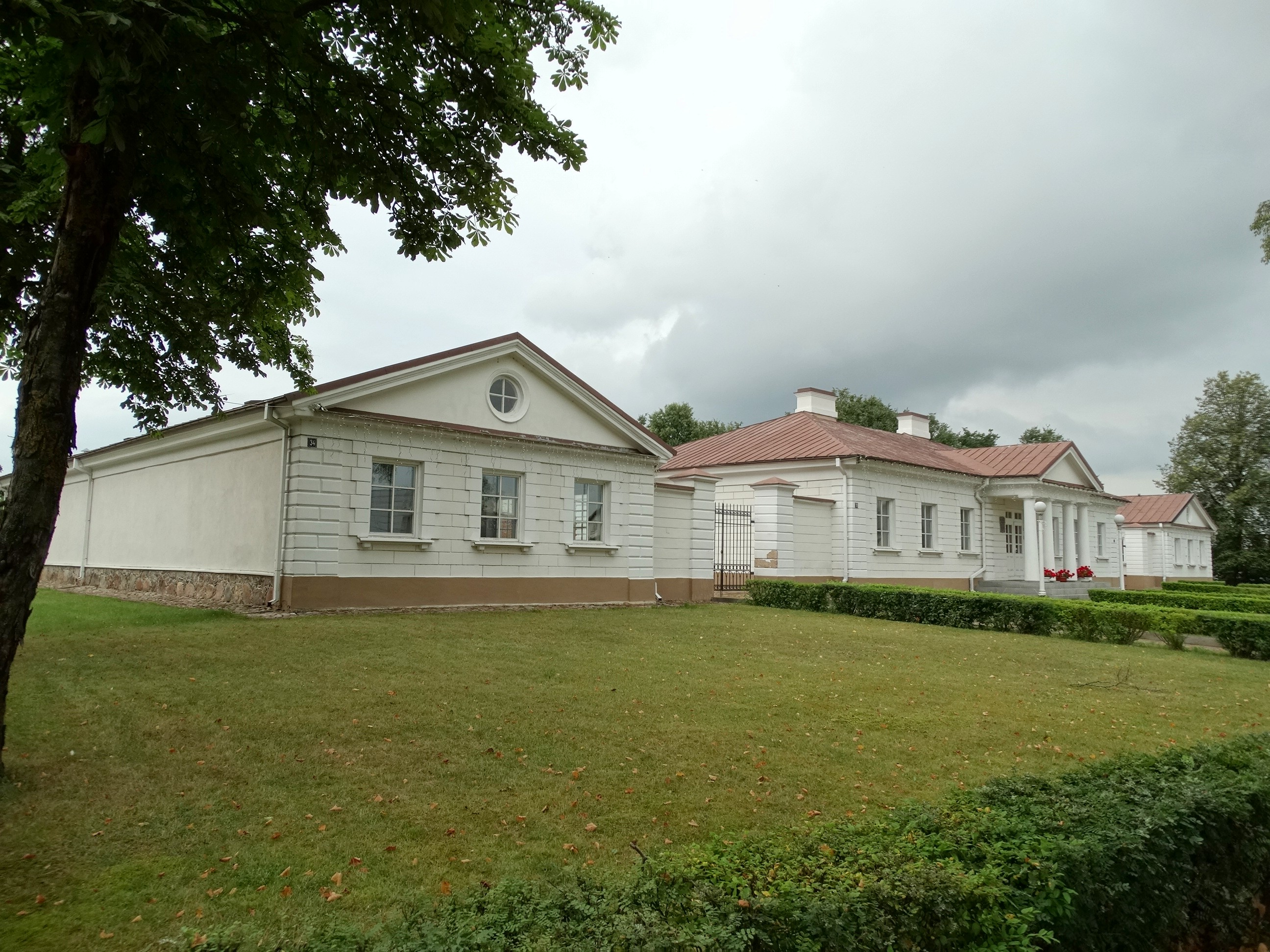 Art school, former post station by the road St. Petersburg-Warsaw in Utena, Lithuania